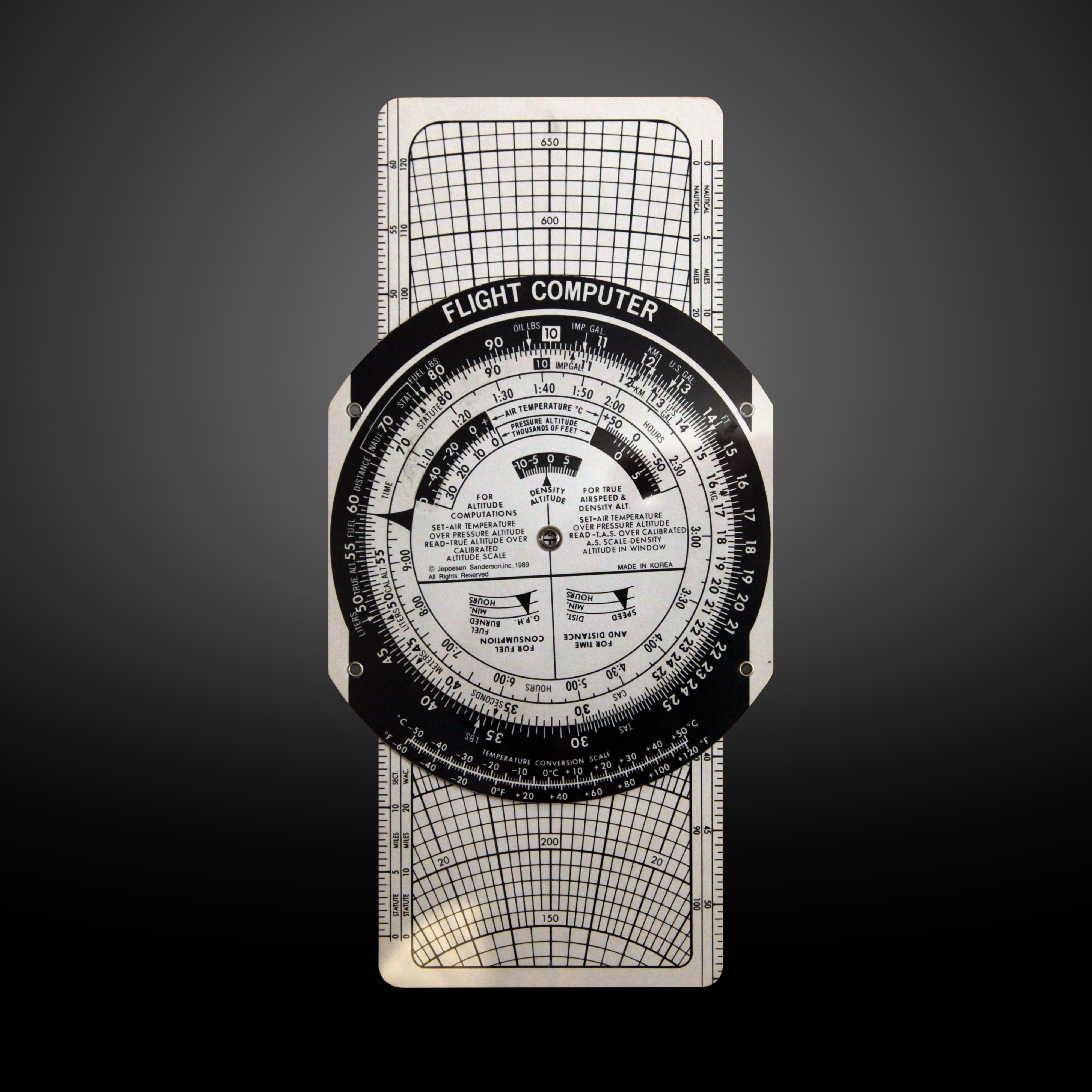 Jeppesen Sanderson Inc. Flight Compuer Slide Rule. Gift of Brian Leibowitz, on display at the MIT Museum.